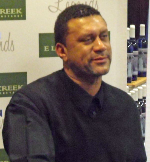 Kenny Walker at an autograph signing in Lexington, Kentucky